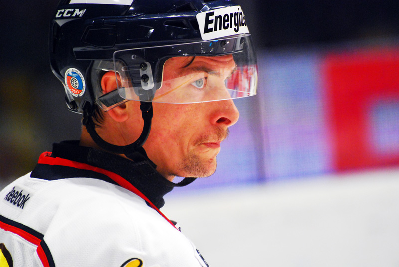 Swedish ice hockey defenseman Magnus Johansson of Linköpings HC during a game against AIK in November 2012